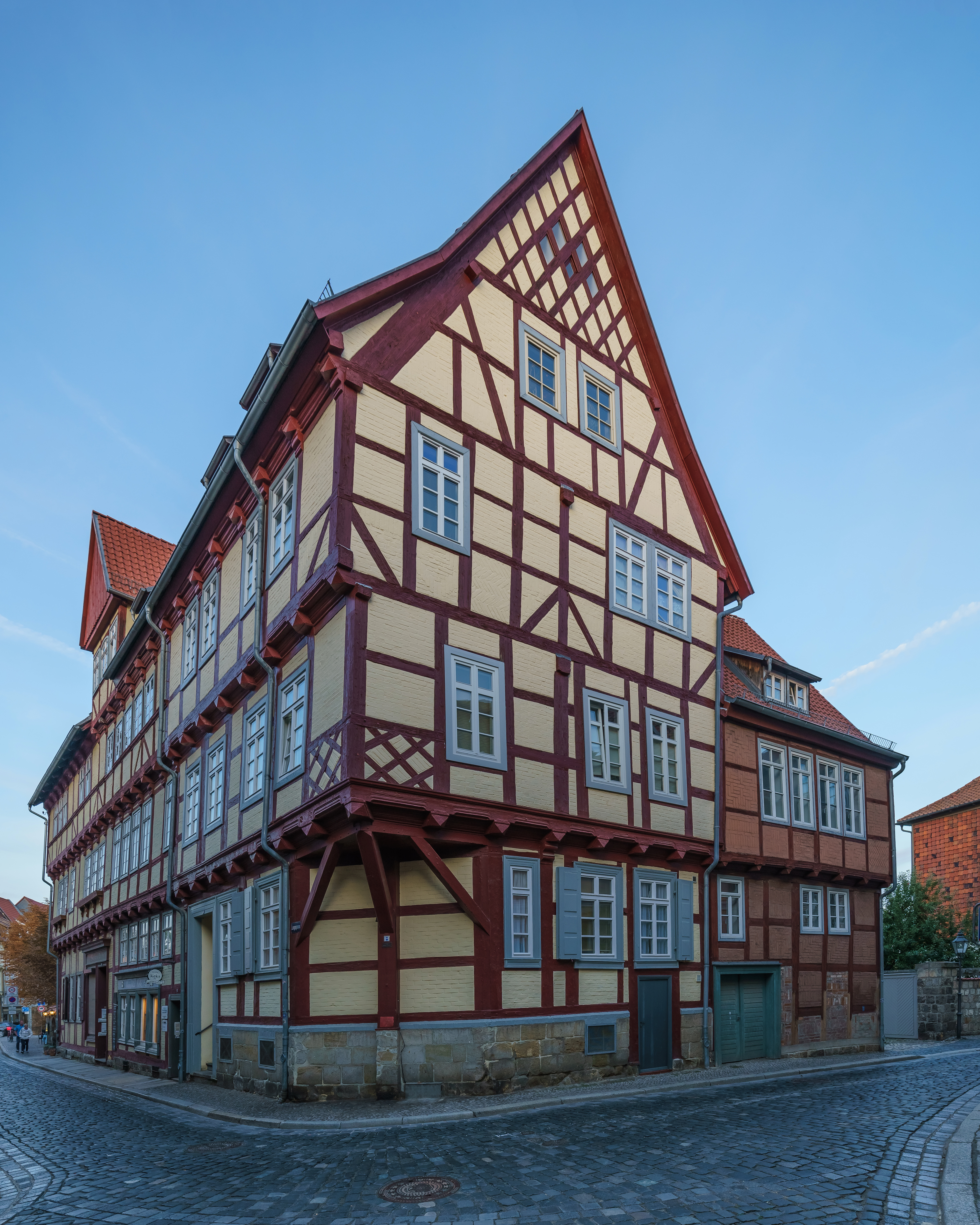 Old Town in Quedlinburg, Germany